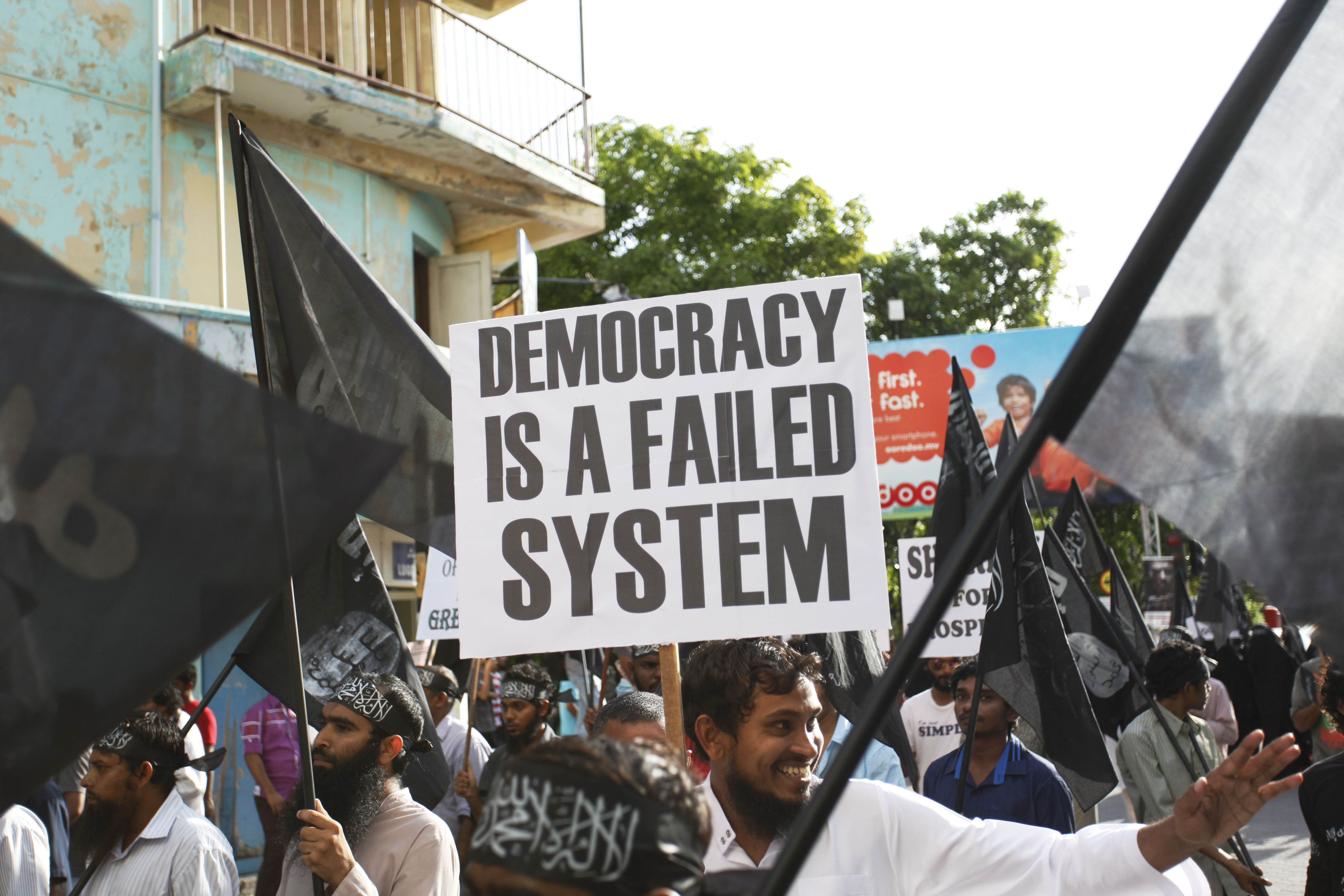 Protests in Maldives, Indian Ocean island nation 2014 Shariat, Shariah, Islamic law, Qanoon, Qanun